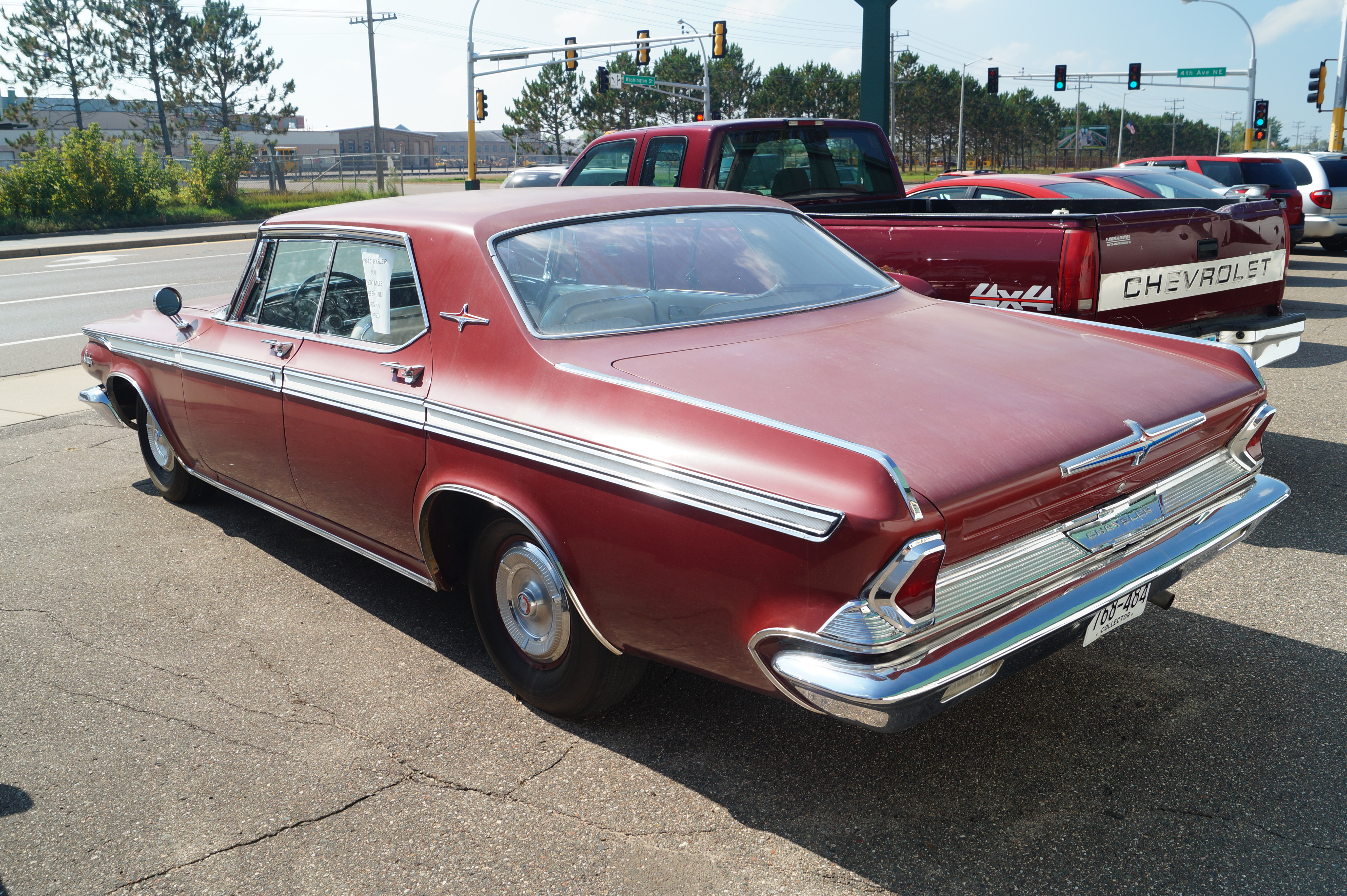 I could not see many cars on my way up to the Boat Show on Gull Lake, since it was very early, dark and foggy. Around the Boat Show and on the trip back I did catch a few. Click here for more car pictures at my Flickr site.